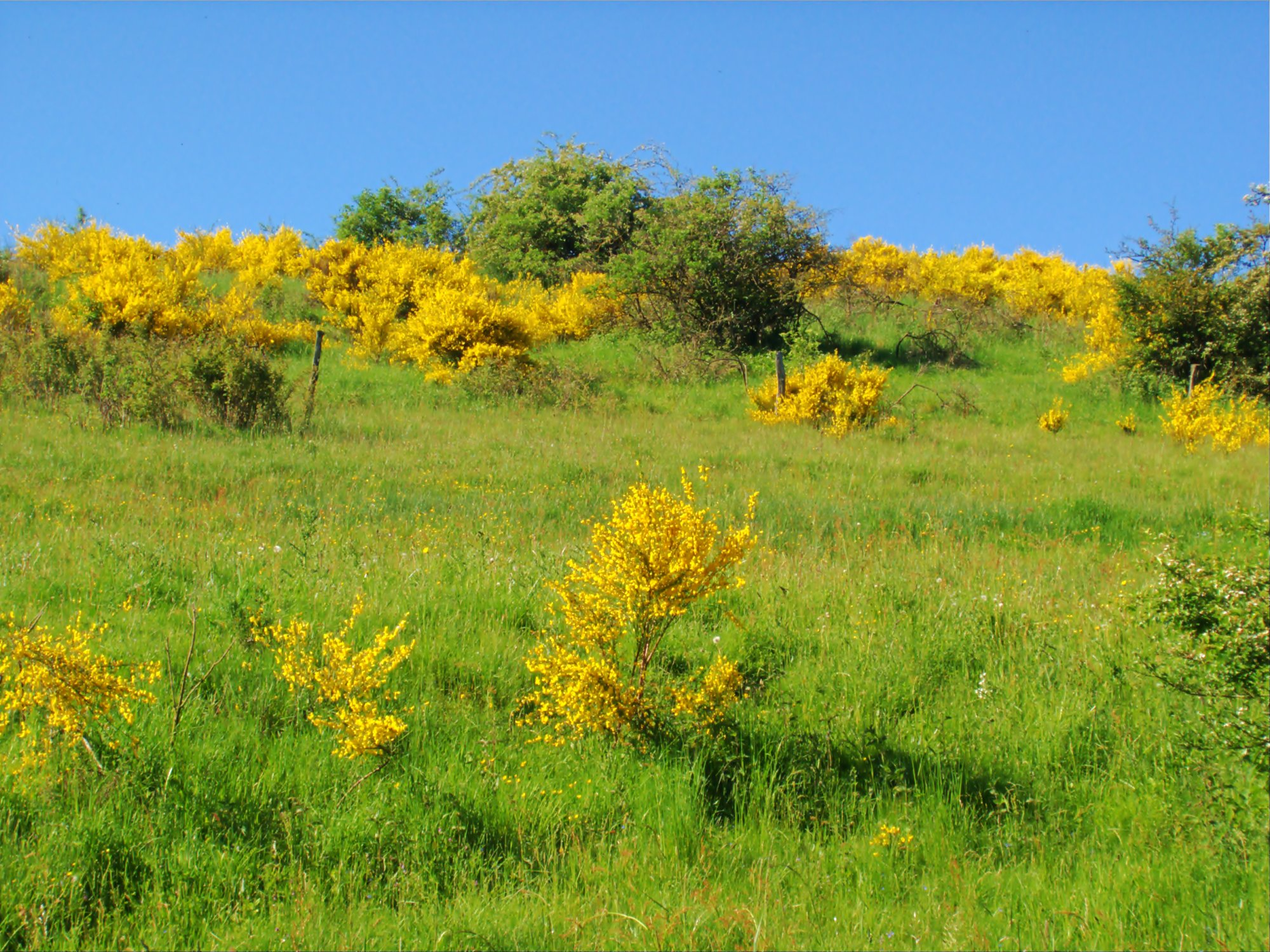 Name: Cytisus scoparius. Family: Fabaceae. Location: Nettersheim, Eifel, NRW, Germany